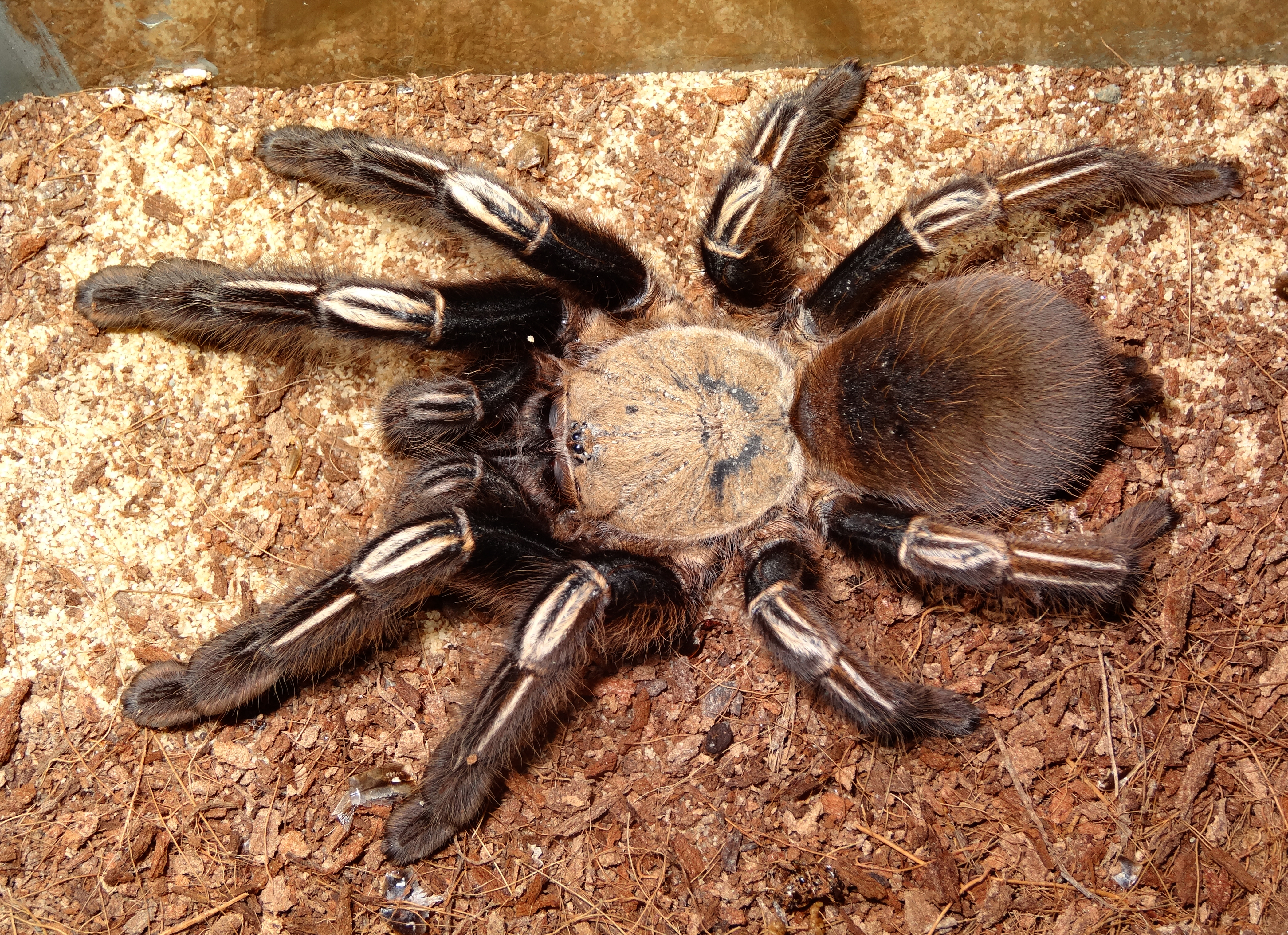 Ephebopus murinus standing motionless in a terrarium.